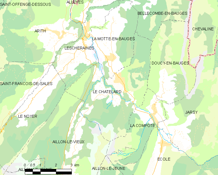 Map of French municipality